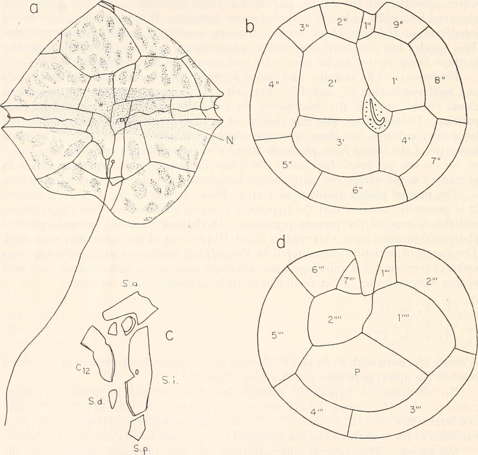 Title: The Biological bulletin Year: [1] (s) Authors: Marine Biological Laboratory (Woods Hole, Mass. ); Marine Biological Laboratory (Woods Hole, Mass. ). Annual report 1907/08-1952; Lillie, Frank Rattray, 1870-1947; Moore, Carl Richard, 1892-; Redfield, Alfred Clarence, 1890-1983 Subjects: Biology; Zoology; Biology; Marine Biology Publisher: Woods Hole, Mass. : Marine Biological Laboratory Text Appearing Before Image: 200 ENRIQUE BALECH to the genus Peridinium was clearly correct, but they bore only superficial re- semblances to Scrippsiella sweeneyi. The genus is named after the institution at which it was discovered, and the species is dedicated to Dr. Beatrice M. Sweeney who made the original isolation and whose cultures made this study possible. Fragilidium heterolobum n. gen. n. sp. G Text Appearing After Image: FIGURE 3. Fragilidium heterolobum. a) A typical individual, ventral view, b) Apical view of the epitheca. c) Sulcal plates, d) Antapical view of the hypotheca. All figures about X 1000. Diagnosis. Medium-sized, roughly roundish pentagonal in ventral view. Epitheca dome-shaped; hypotheca asymmetrically bipedal, the left lobe being the largest. Cingulum deeply impressed, subcentral, descending, displaced distally about one girdle width, without lists. The cingulum has eleven sub-equal rec- tangular plates plus a transitional plate at the right end. Sulcus narrow, only slightly excavated, with six plates. Theca easily exuviated. Cell length 53-56 ^